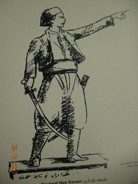 Youssef Bey Karam Sketch